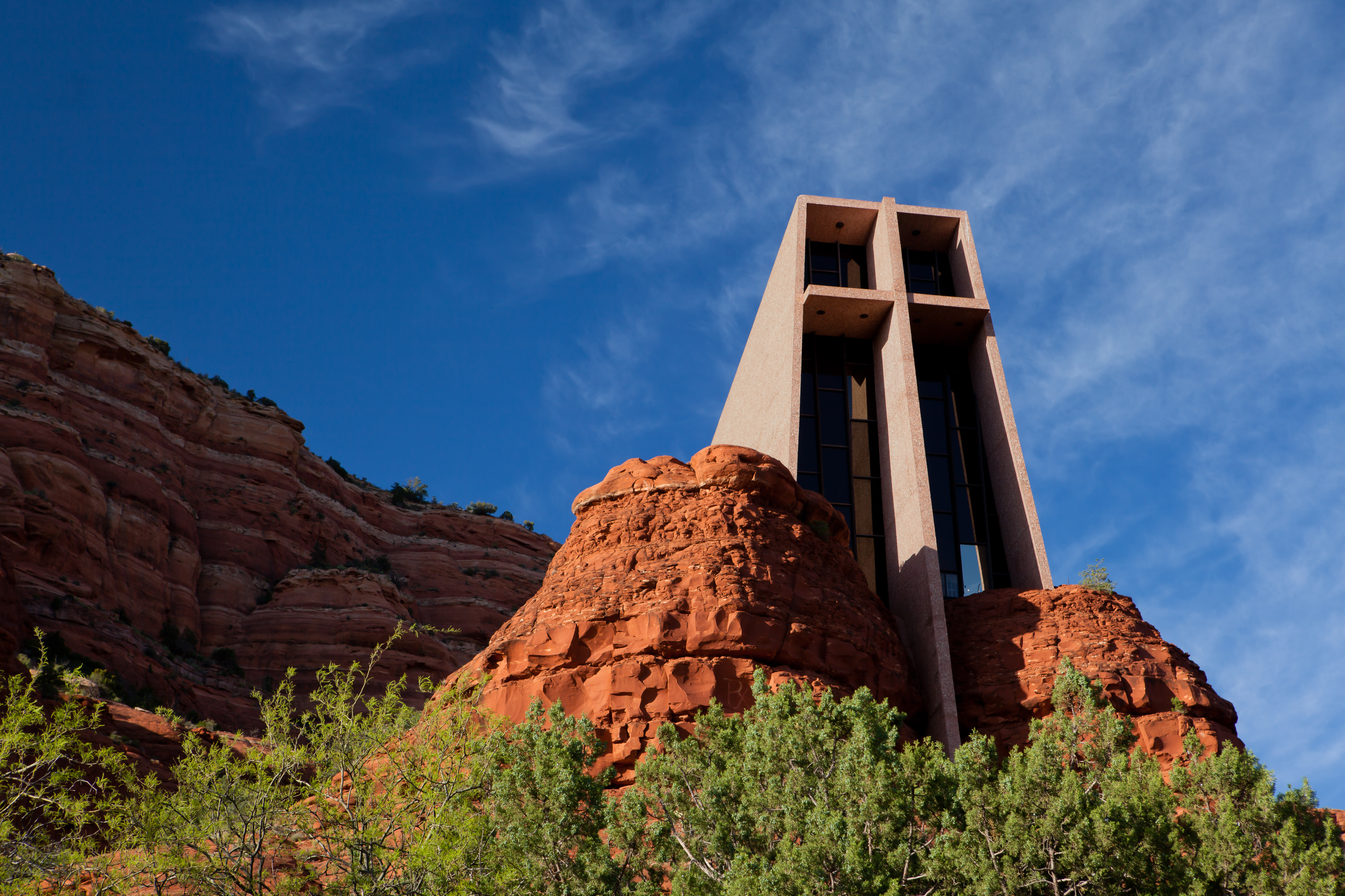 A picture of the Chapel of the Holy Cross in Sedona, Arizona near sunset. The chapel appears to rise out of the rock formations characteristic of the area.